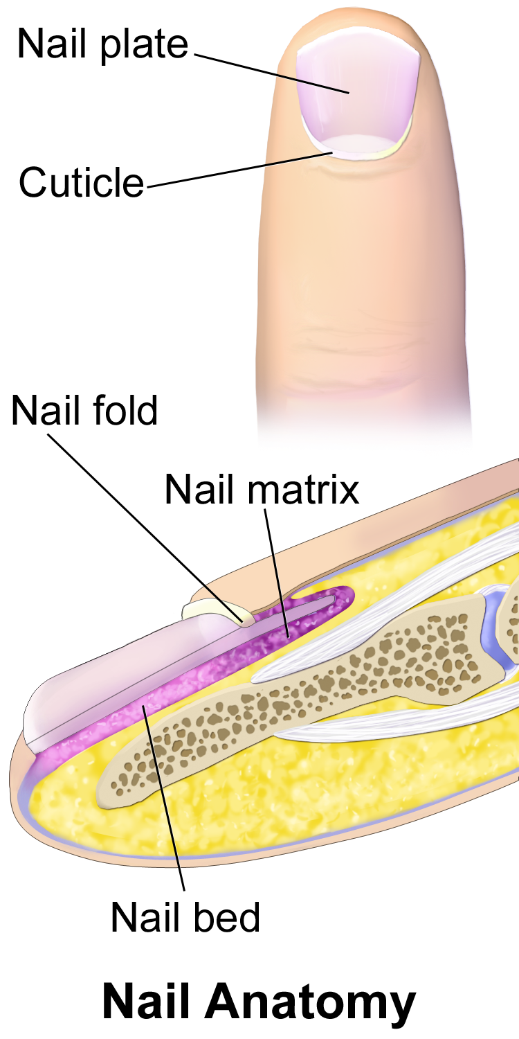 Nail. See a full animation of this medical topic.